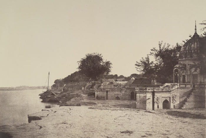 (Titled: "Slaughter Ghat, Cawnpore"). A photo of Satti Chaura Ghat, the location of the Satichaura Ghat massacre during the Siege of Cawnpore. The site is located in modern-day Kanpur, India.